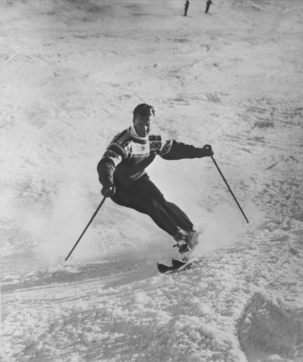 Stein Eriksen (born 11 December 1927) is a former alpine ski racer and Olympic gold medalist.